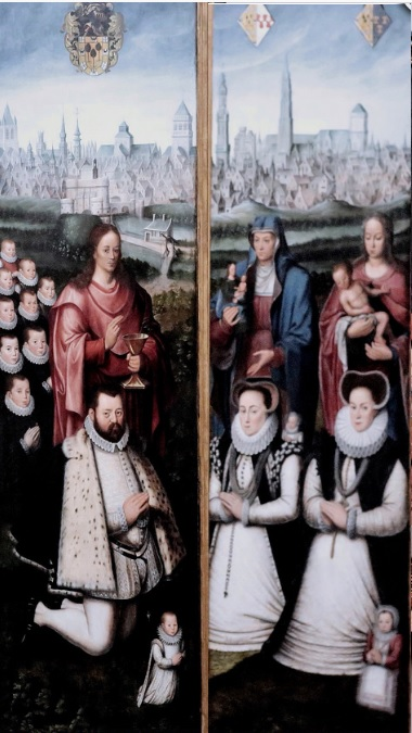 two doors of a triptych (central panels is unknown). The background is a cityscape of Bruges